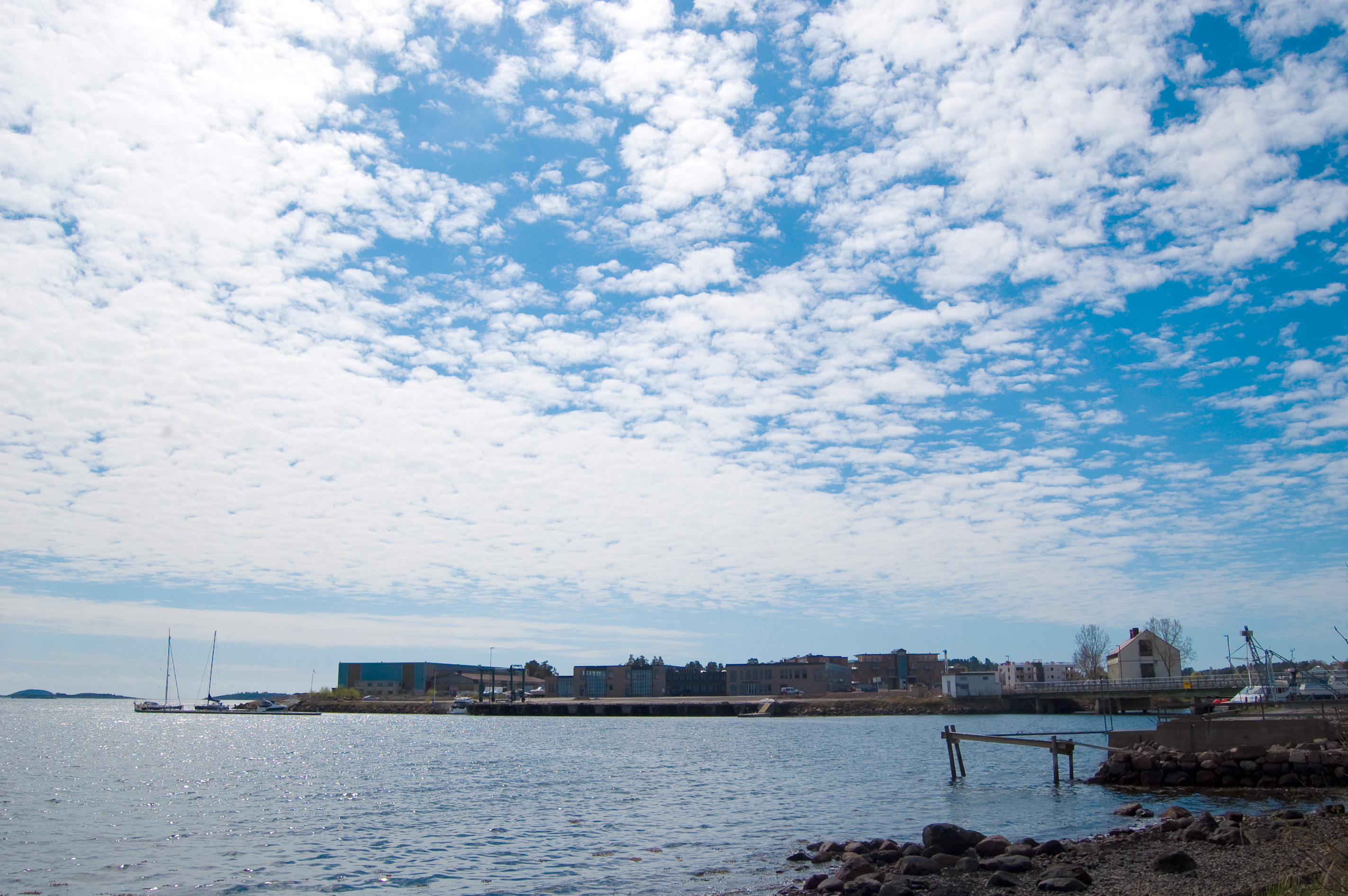 Jarlsø (Jersøy) in Tøsberg, Vestfold, Norway